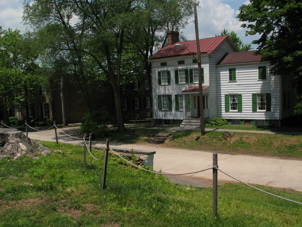 The Historic Richmondtown, which keeps the style of colonial America till today, is located in the heart of Staten Island